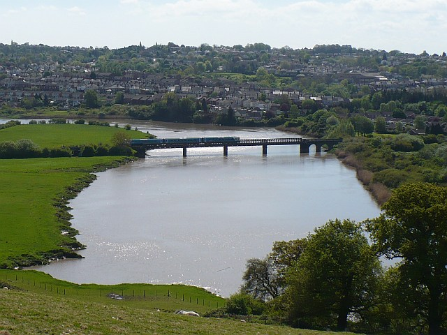 Railway bridge over the River Usk near Caerleon